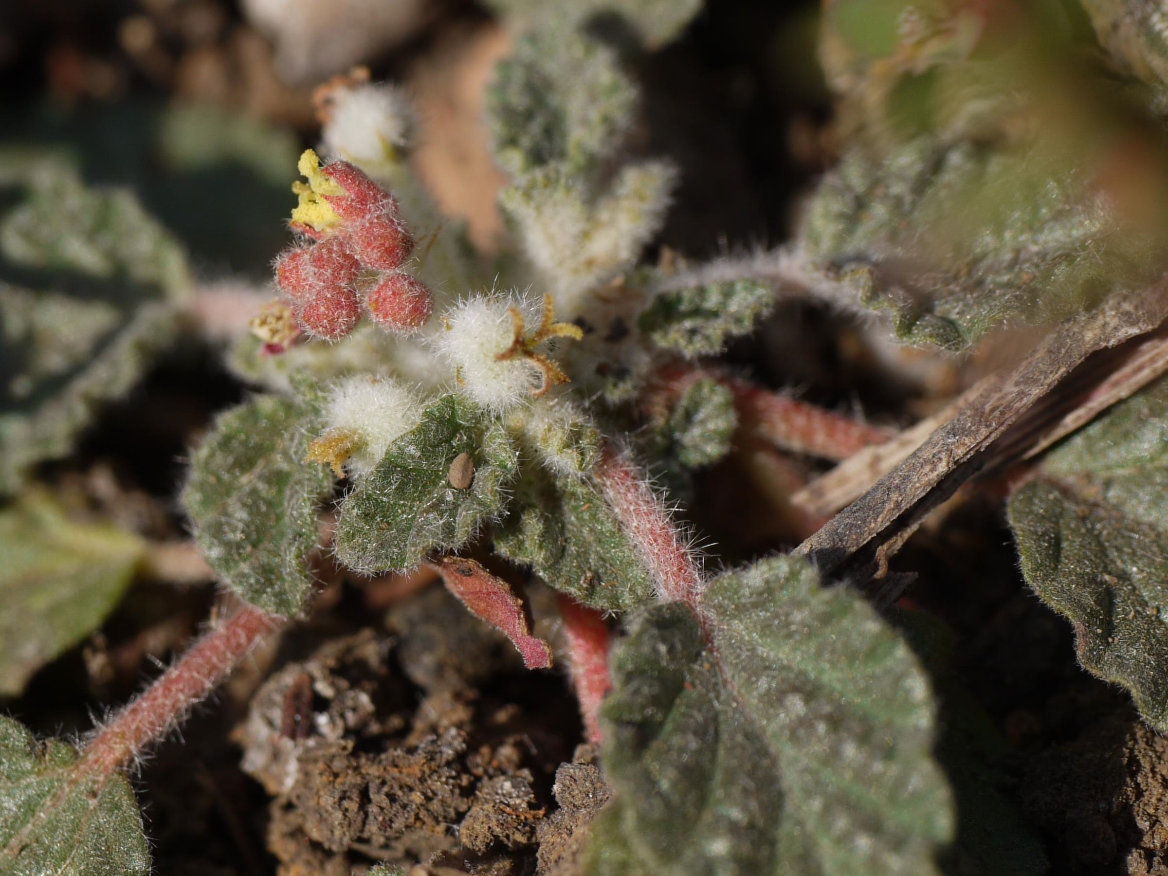 Chrozophora plicata (Vahl) A.Juss. ex Spreng.